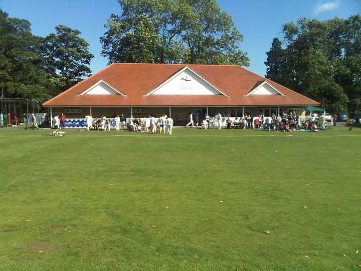 Oswestry Cricket Clubs stunning Pavilion